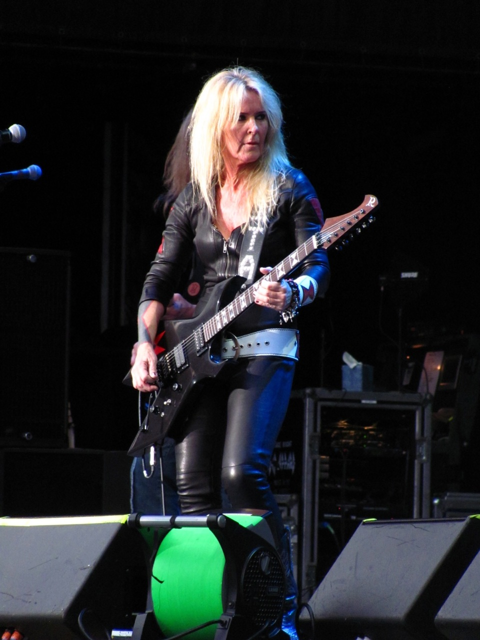 Lita Ford performing at Jones Beach on July 13, 2012.